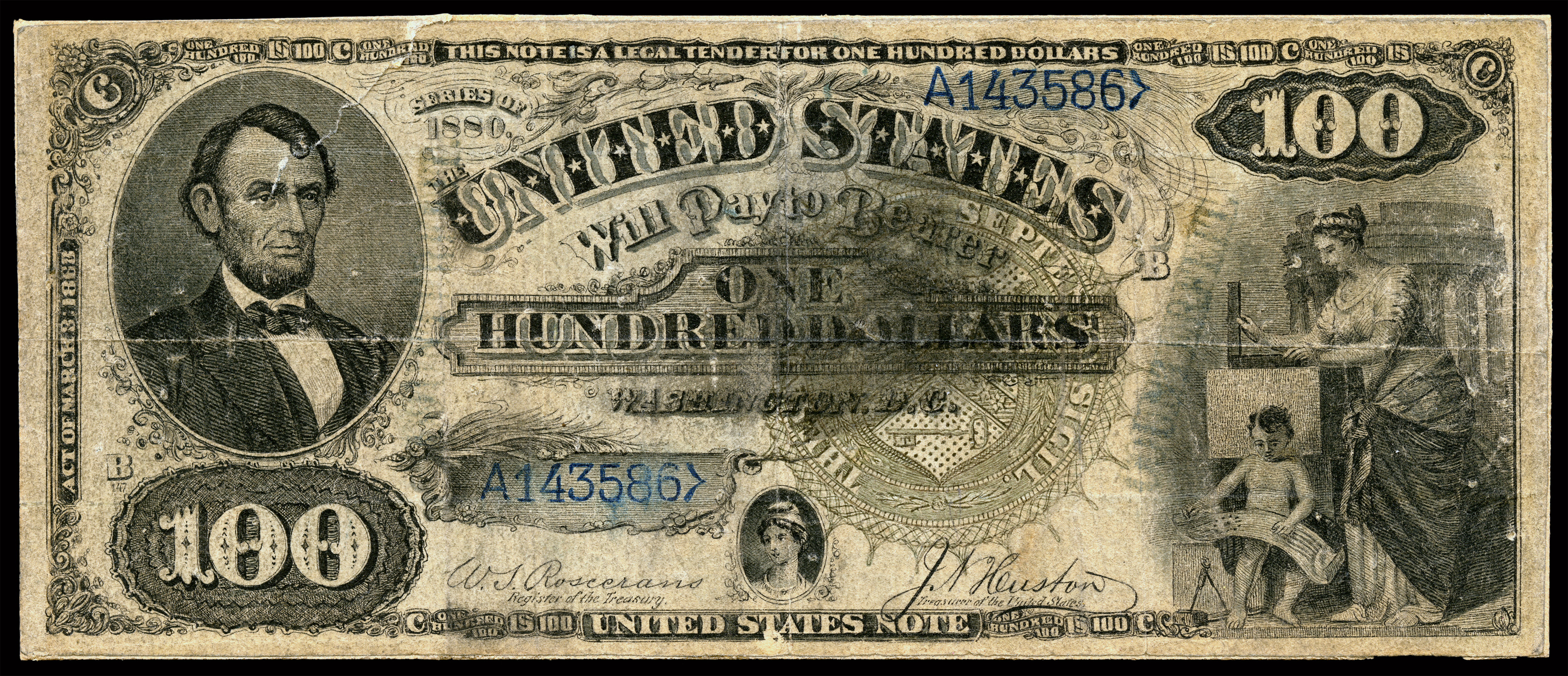 A counterfeit United States Series 1880 $100 by Emanuel Ninger.